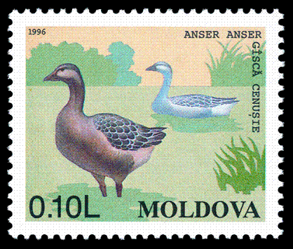 Stamp of Moldova